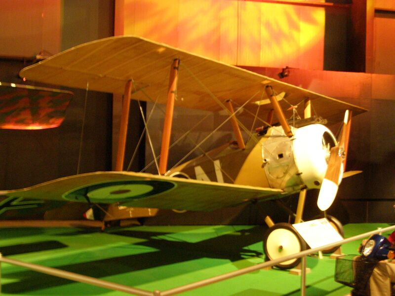 Sopwith Camel in the WWI desplay area